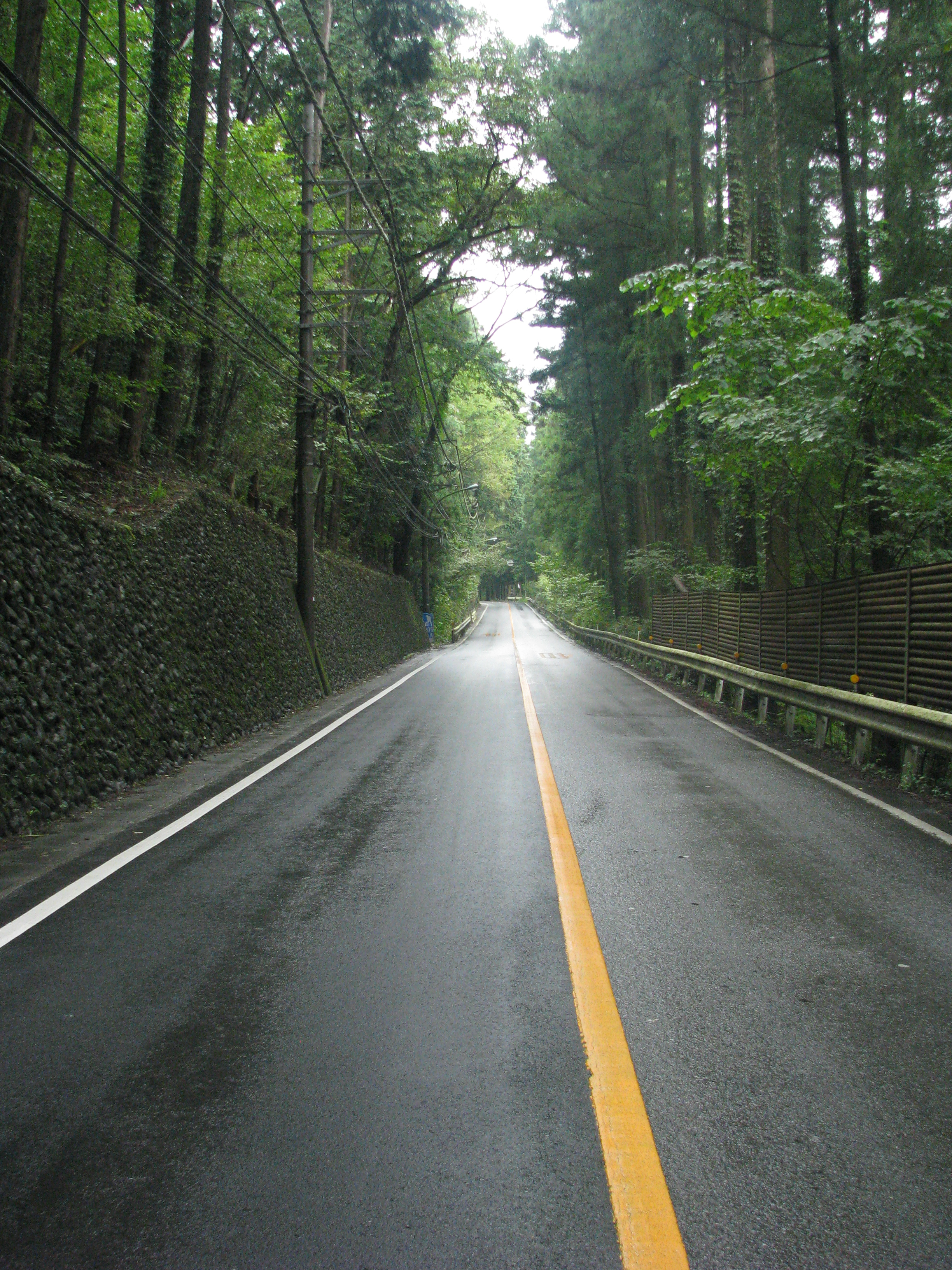 Tokyō metro road 33 Uenohara - Akiruno Line (Hinohara Kaidō Ave./for Hinohara), Akiruno C, Tokyo M.